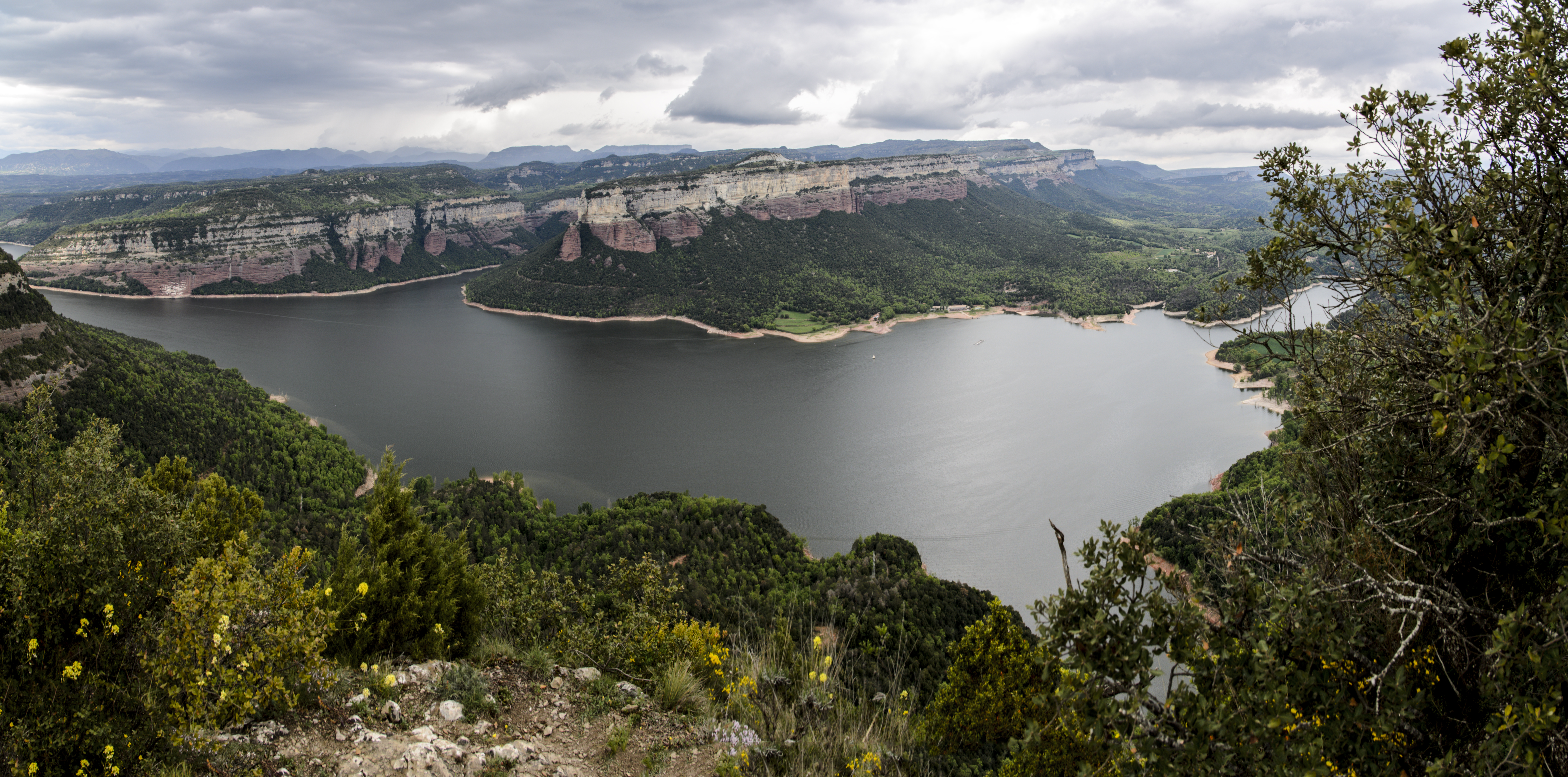 This is a a photo of a natural area in Catalonia, Spain, with id: ES510099